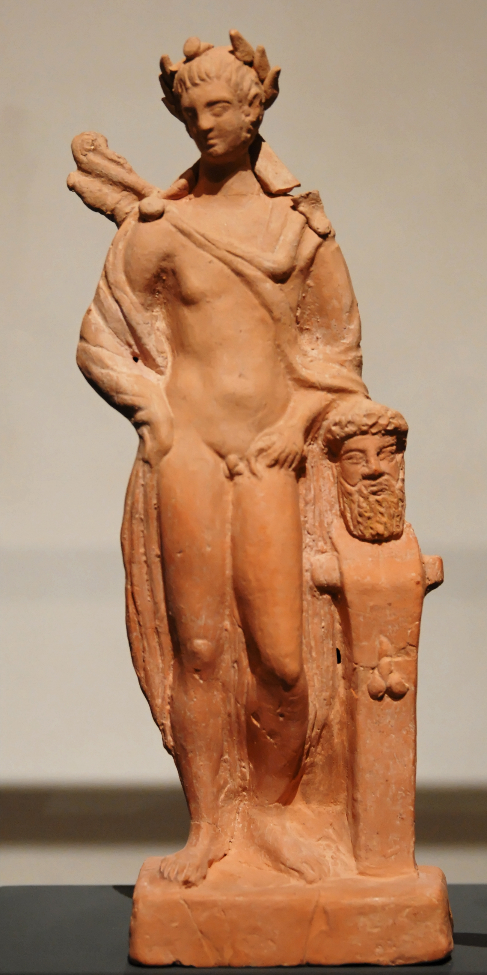 Semi-draped youth holding a quiver and a strigil and leaning on a Hermaic pillar. Terracotta, made in Myrina, first half of the first century AD. From Myrina.